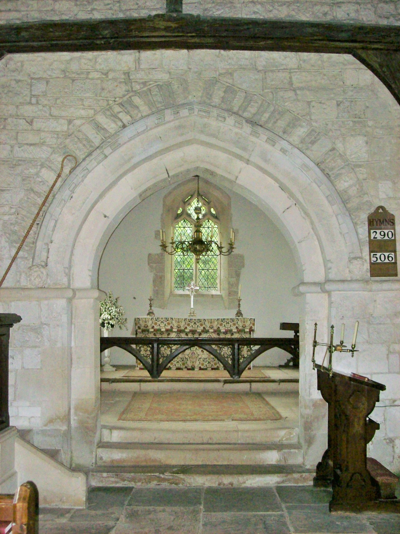 Inside the nave of All Saints' parish church, Woolstone, Oxfordshire (formerly Berksihre), looking east toward the chancel